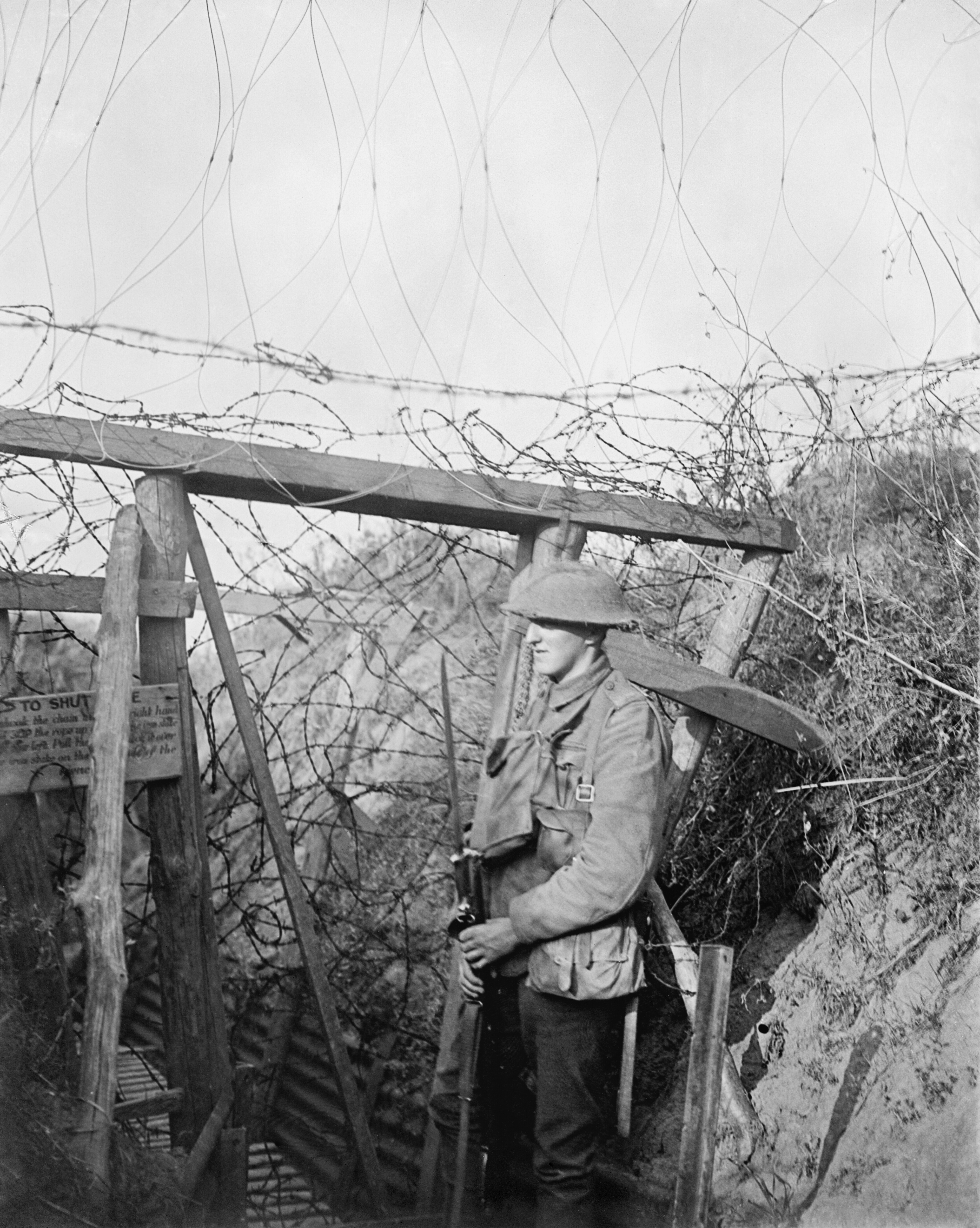 The British Army on the Western Front, 1914-1918 A barbed wire gate in a trench system to form a block against raiders at Cambrin in trenches held by 1/7th Sherwood Foresters (Nottinghamshire & Derbyshire Regiment), 16 September 1917.